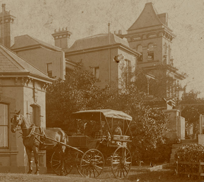 Venetia, Glebe, the large house adjoining Bellevue, Glebe, Sydney (1899)